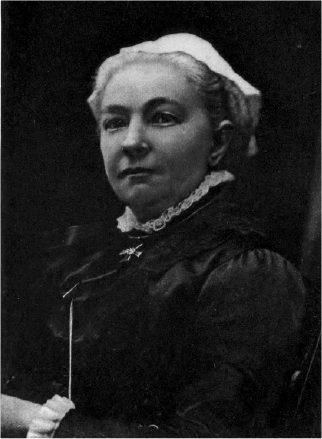 Margaret Oliphant Oliphant